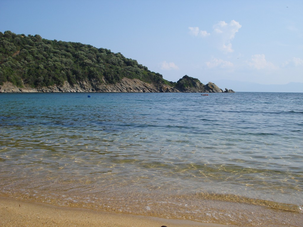 When you arive to the Karagatsi beach if you want clean sea without rocks and wracks, choose the left side of the mole as you look of it from the beach.